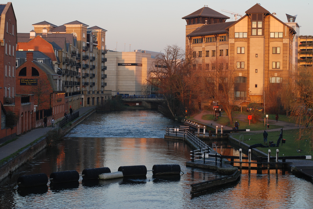 The County Lock of the Kennet Navigation taken from the IDR footbridge. The Loch Fyne Restaurant is to the left. In the distance you see the beginning of the Oracle shopping centre and Bridge Street.